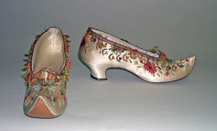 French; Shoes